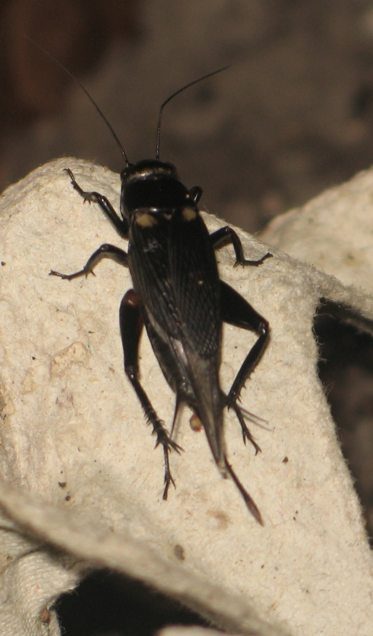 Cricket of species Gryllus bimaculatus (female). Personnal picture of my own animals.